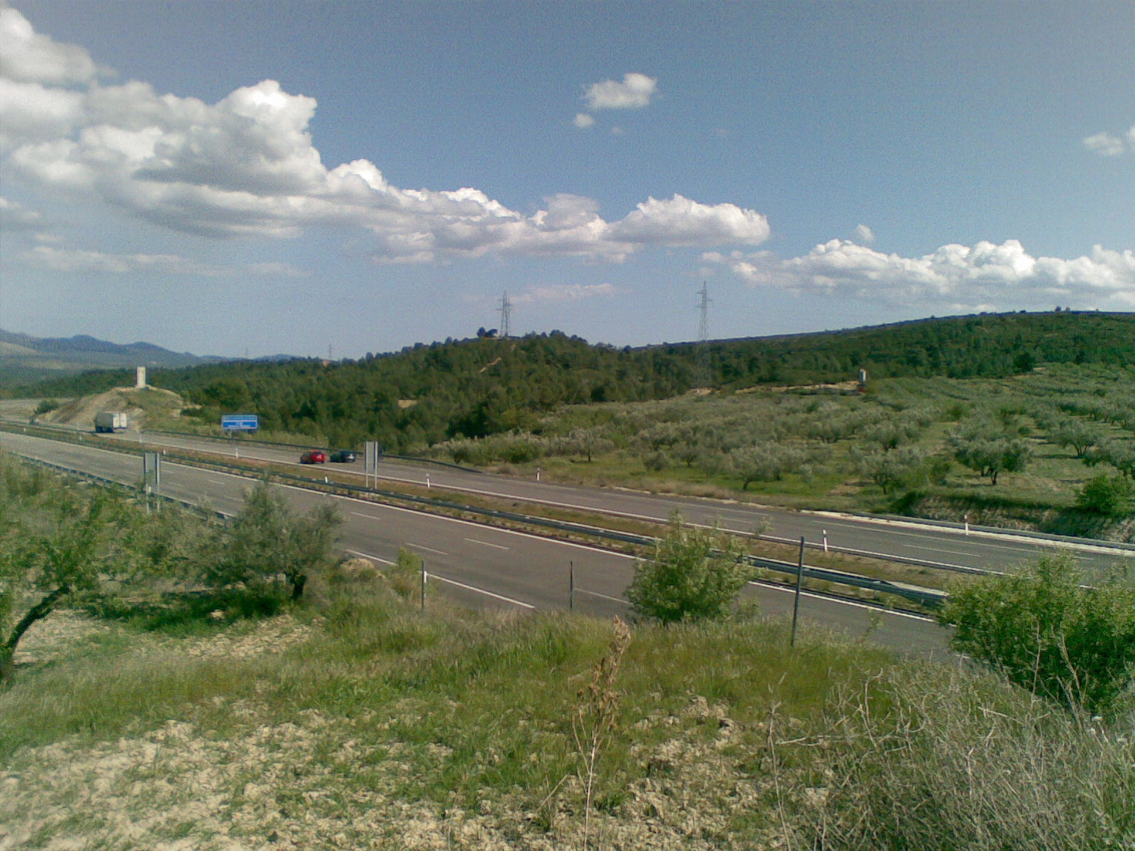 The "Mudejar" Motorway in Jérica (Castellón)(Spain)